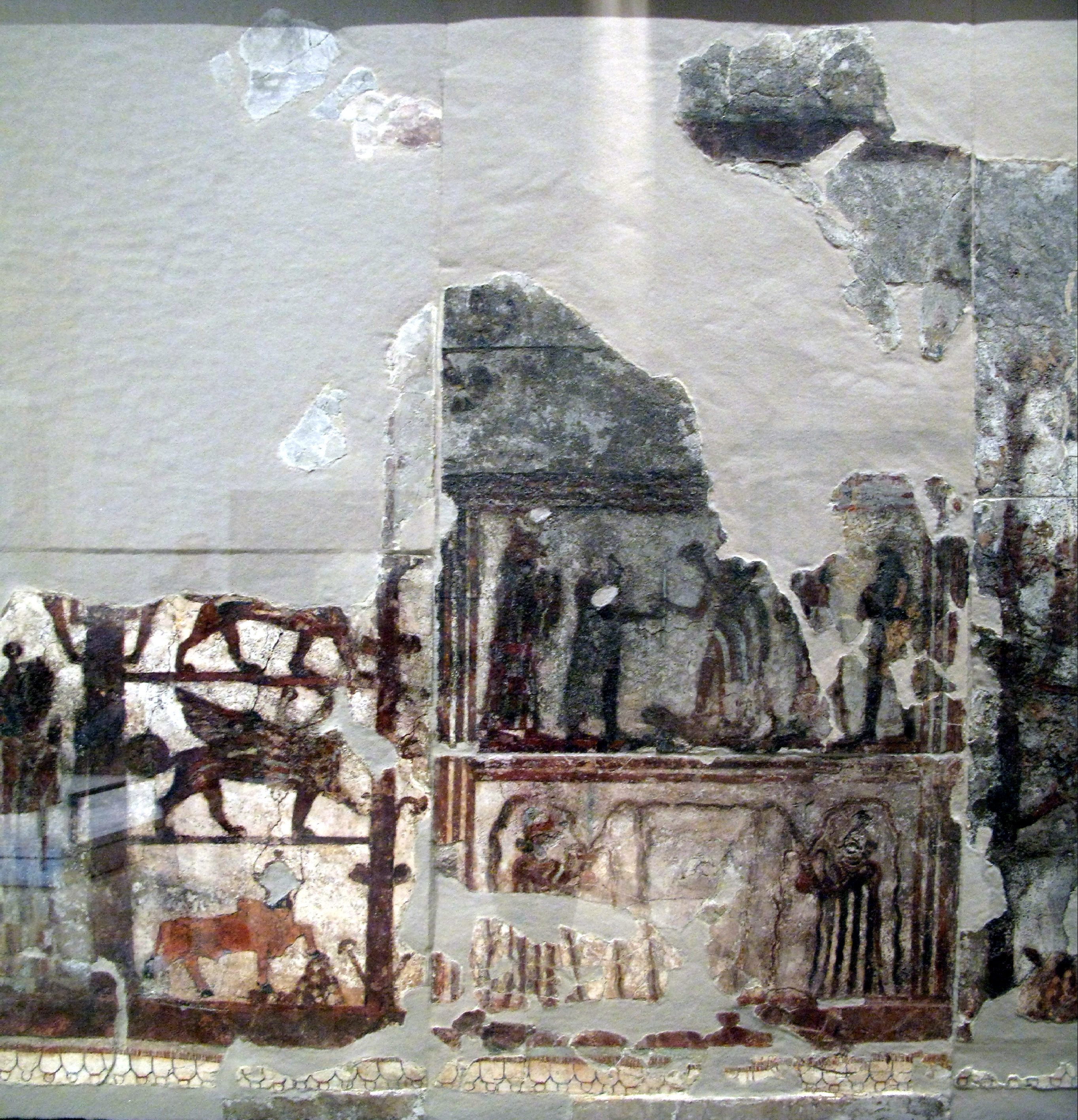 ArtistUnknownDescription Fresco of the investiture of Zimri Lim [1] 19th century BC, Royal palace of Mari Current location (Inventory)Louvre Museum Native nameMusée du LouvreLocationParisCoordinates48° 51′ 37″ N, 2° 20′ 15″ E Established1793Website control : Q19675 VIAF: 257711507 ISNI: 0000 0001 2260 177X ULAN: 500125189 LCCN: n80020283 NLA: 35912436 WorldCat Richelieu Rez-de-chaussée Mésopotamie, IIe et Ier millénaires avant J.-C. Salle 3Accession numberAO 19826Credit lineFound by A. Parrot, 1935 - 1936Source/PhotographerRama Fresco of the investiture of Zimri Lim [1] 19th century BC, Royal palace of Mari